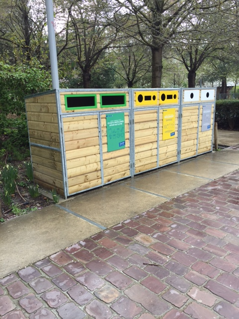 Borne situé dans le parc Martin Luther King Ecoquartier Clichy Batignolles